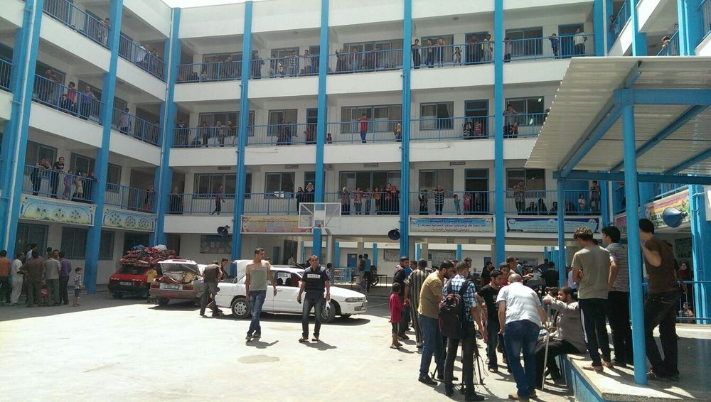 Description from B'Tselem source: "Gaza Strip, July 2014: A constant state of emergency According to B’Tselem’s initial inquiries, by yesterday evening (14 July 2014) at least 172 Palestinians had been killed in Israel’s airstrikes on the Gaza Strip. This number includes 34 minors (eight younger than 6 years old), 20 women (under 60) and 10 senior citizens. Our field researchers in Gaza have been working ceaselessly, night and day, to document events. Our field researchers in the West Bank have been lending a hand by collecting testimonies over the phone. Our office staff has been processing and verifying information, and trying to convey the incomprehensible scope of the infringement on human rights. The following seven photos were taken by our field workers in Gaza. They include images from the Kaware’ family home, where eight people, including six minors, were killed, and from the Hamad family home where six members of that family, including one girl – a minor – were killed." Photo caption from source: "Images from at the elementary school in Gaza’s Rimal neighborhood, where UNRWA is housing refugees who left their homes on orders from the Israeli military on the night between 12 and 13 July, 2014"